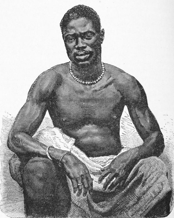 Agni type